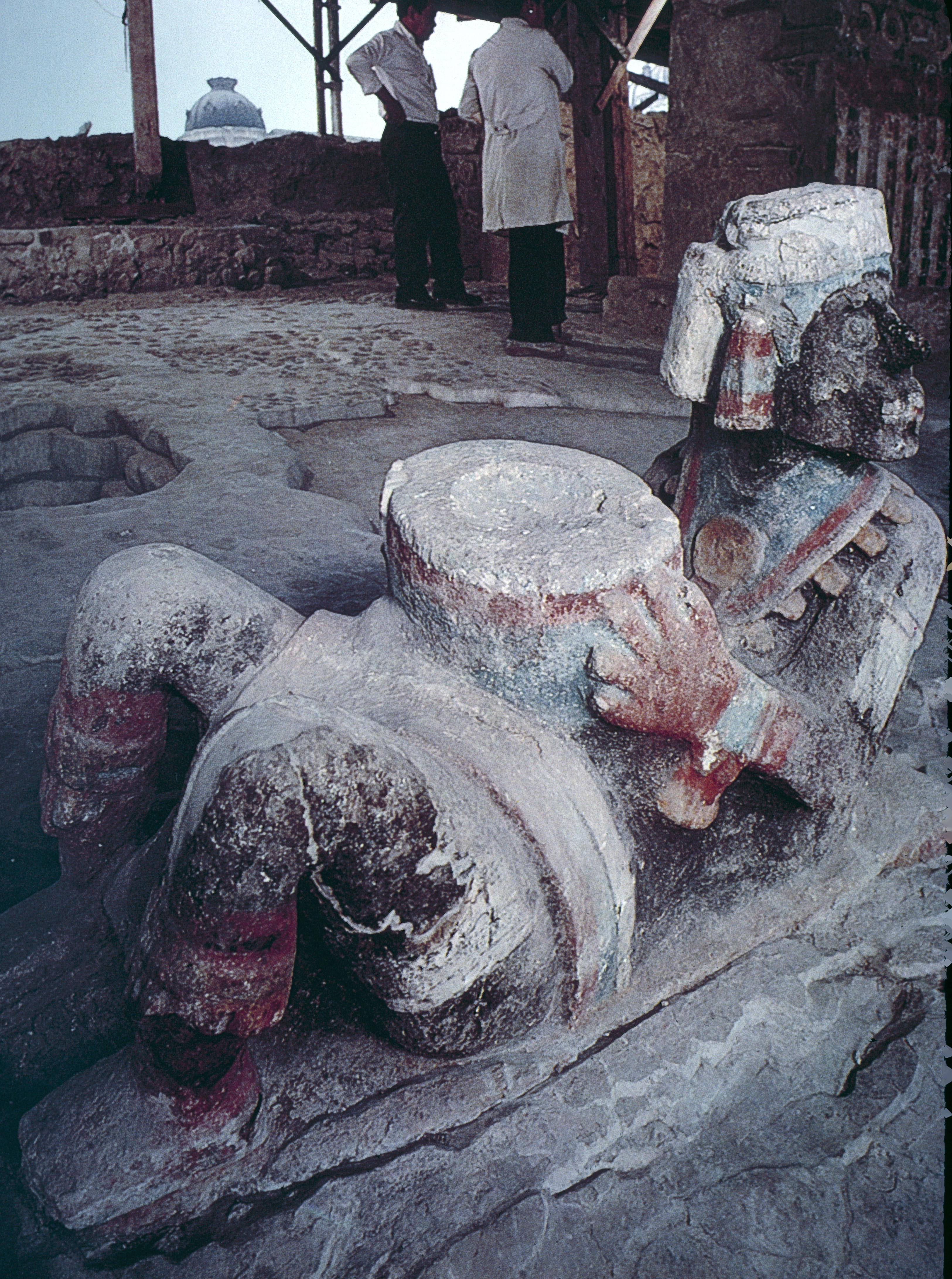 Templo Mayor, Distrito Federal, Mexico: Chac Mool figure